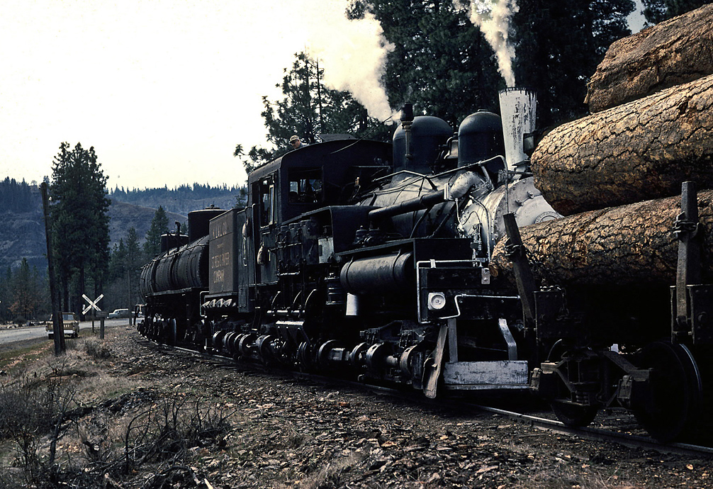 Klickitat Log & Lumber #7 switching what was known as Reload, April 1964